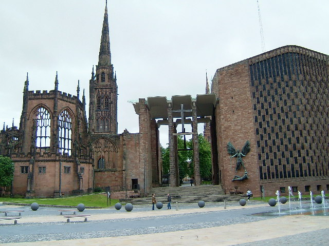 Coventry Cathedral. To the left are the ruins of the cathedral destroyed in the bombing of 14th November 1940. To the right the new cathedral, designed by Basil Spence and consecrated 25th May 1962. Epstein's bronze sculpture of 'St Michael gaining victory over the Devil' can be seen on the wall right of centre.